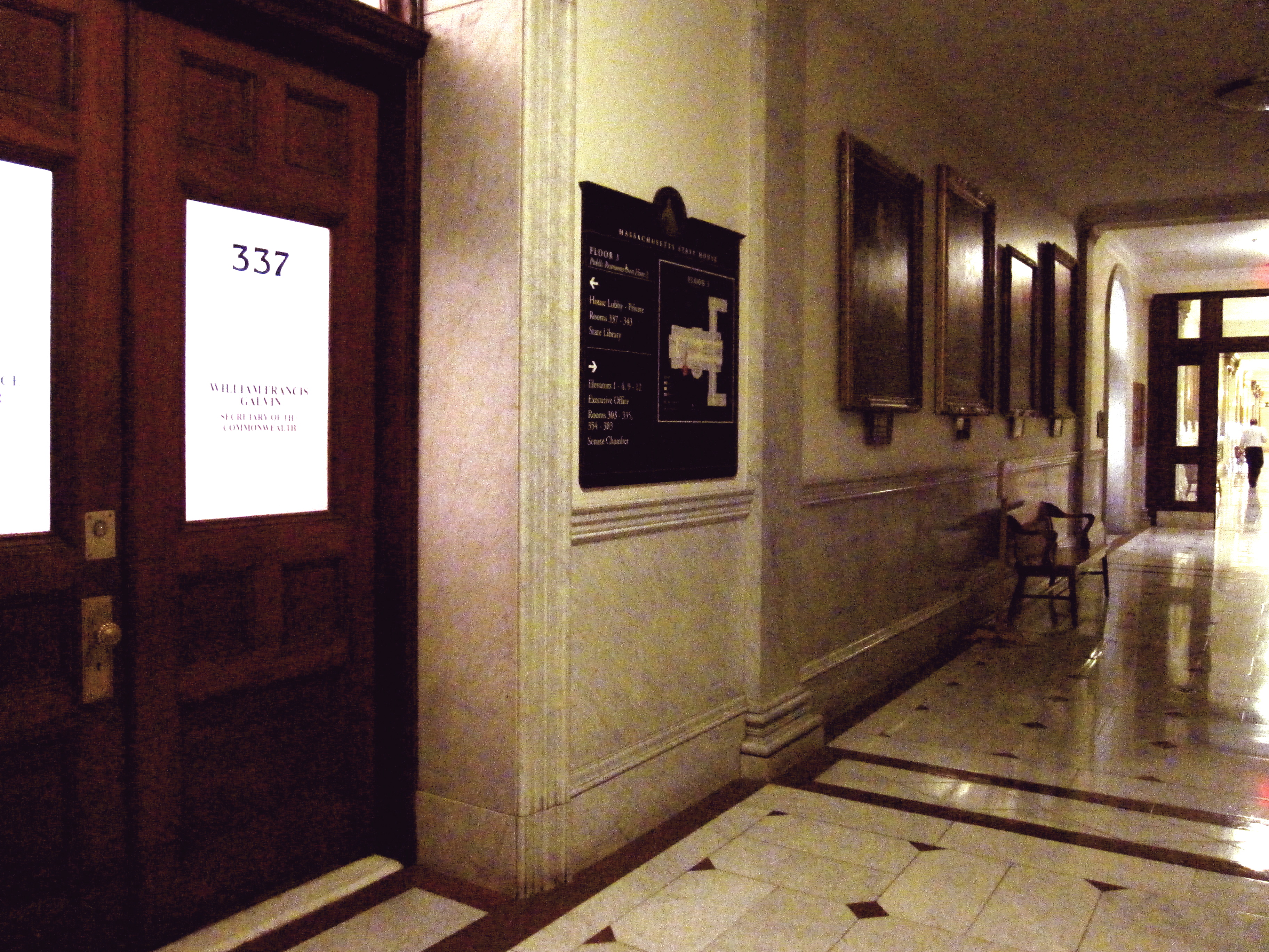 Office of William F. Galvin, Massachusetts State Secretary, State House, Boston.